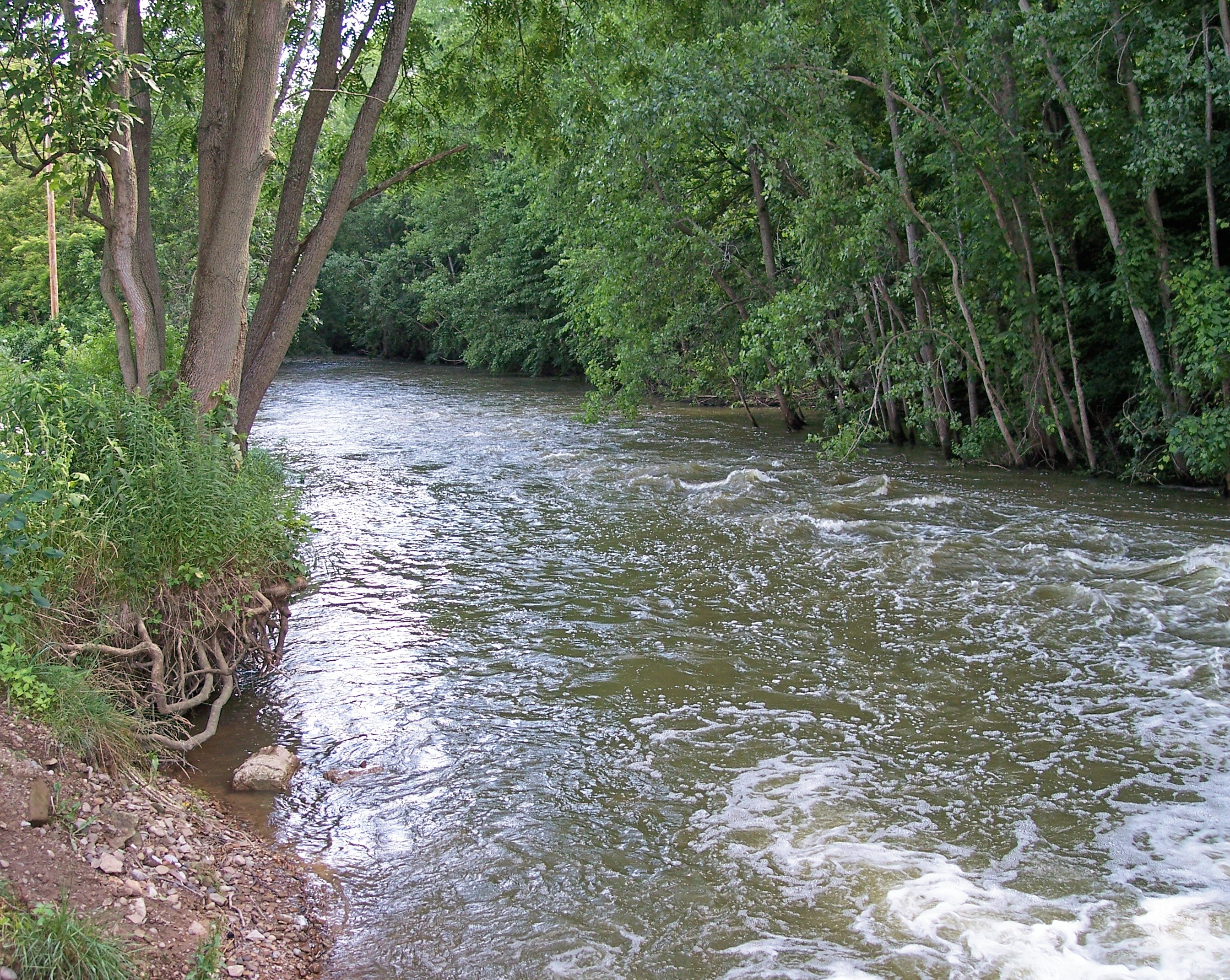 The Black Fork Mohican River just downstream of the dam of Charles Mill Lake in western Ashland County, Ohio